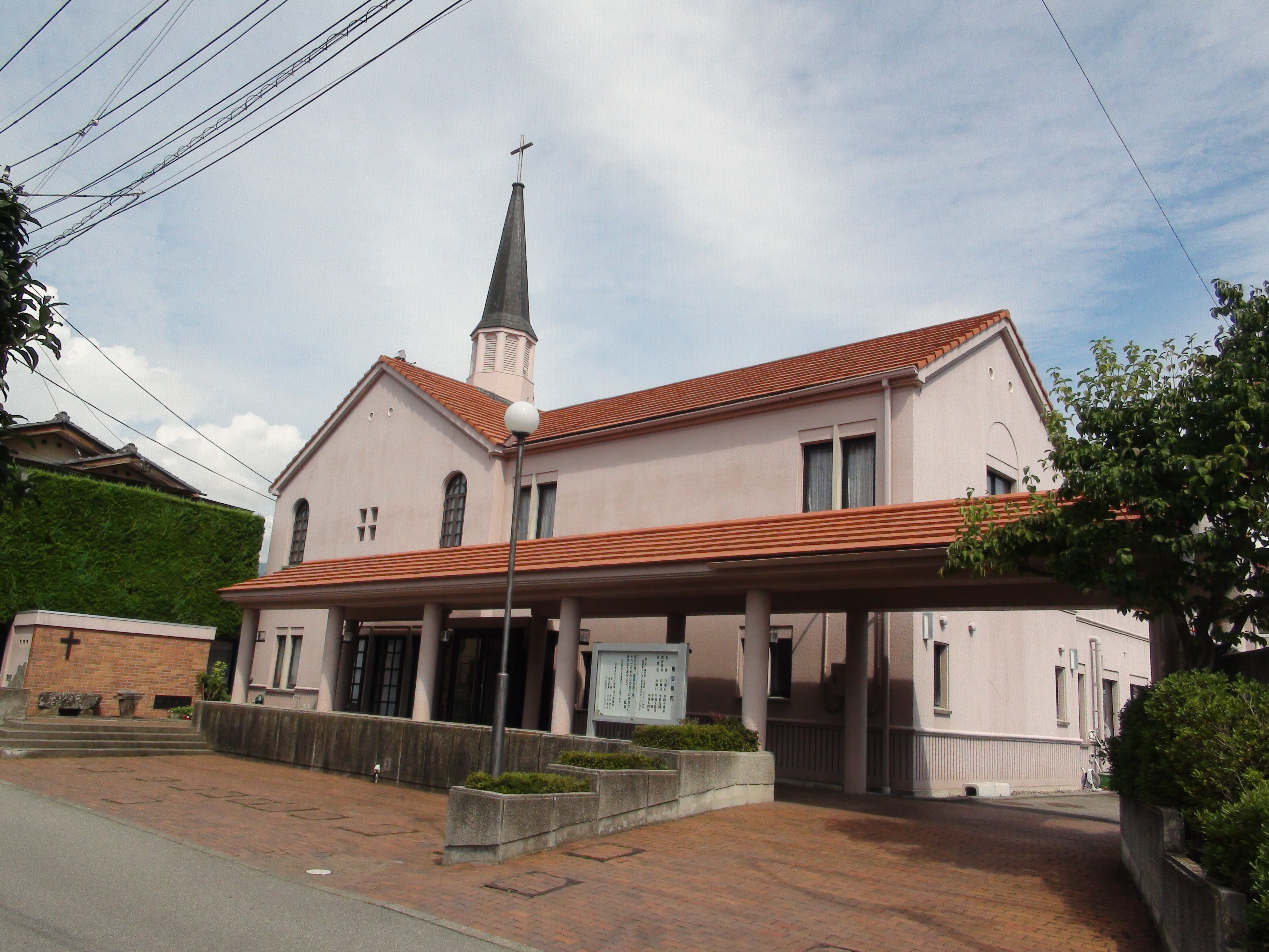 Kusakabe Christ Church. United Church of Christ in Japan.